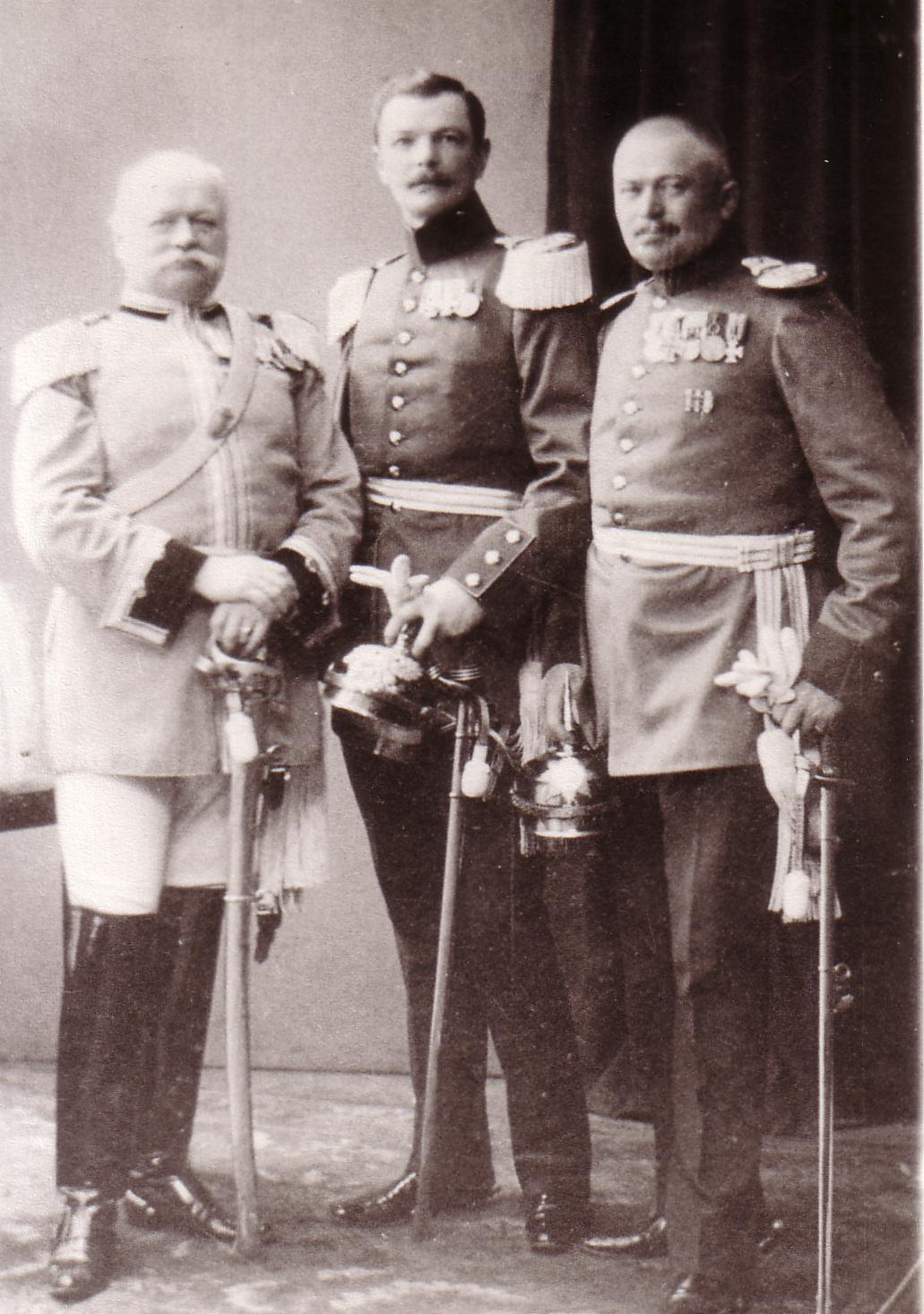 Family Day